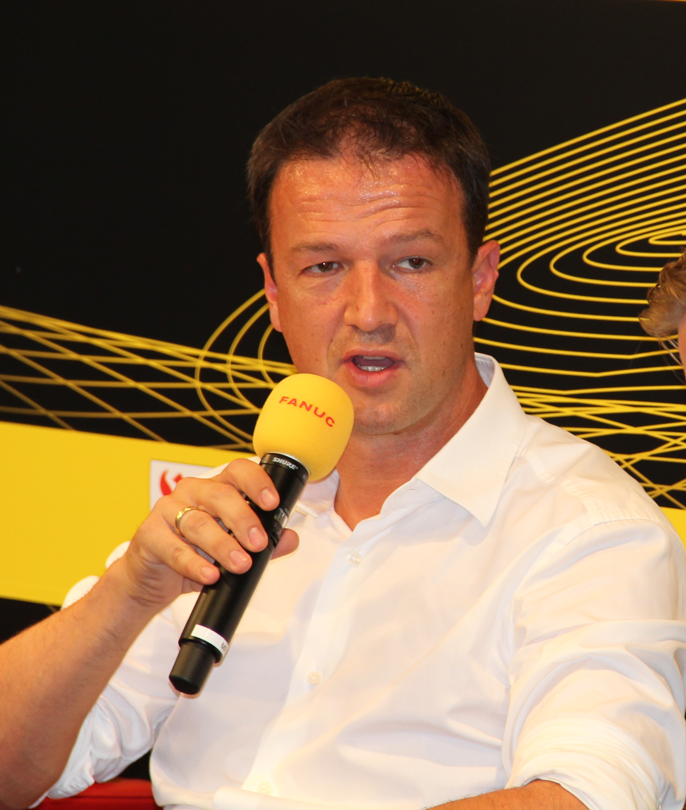 Fredi Bobič, sports director VfB Stuttgart football club